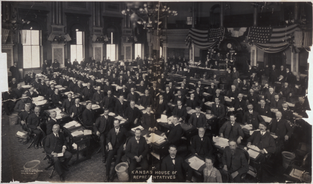 Title: Kansas House of Representatives, [190]5 Date Created/Published: 1905. Medium: 1 photographic print : gelatin silver ; 17 x 29 in. Repository: Library of Congress Prints and Photographs Division Washington, D.C. 20540 USA